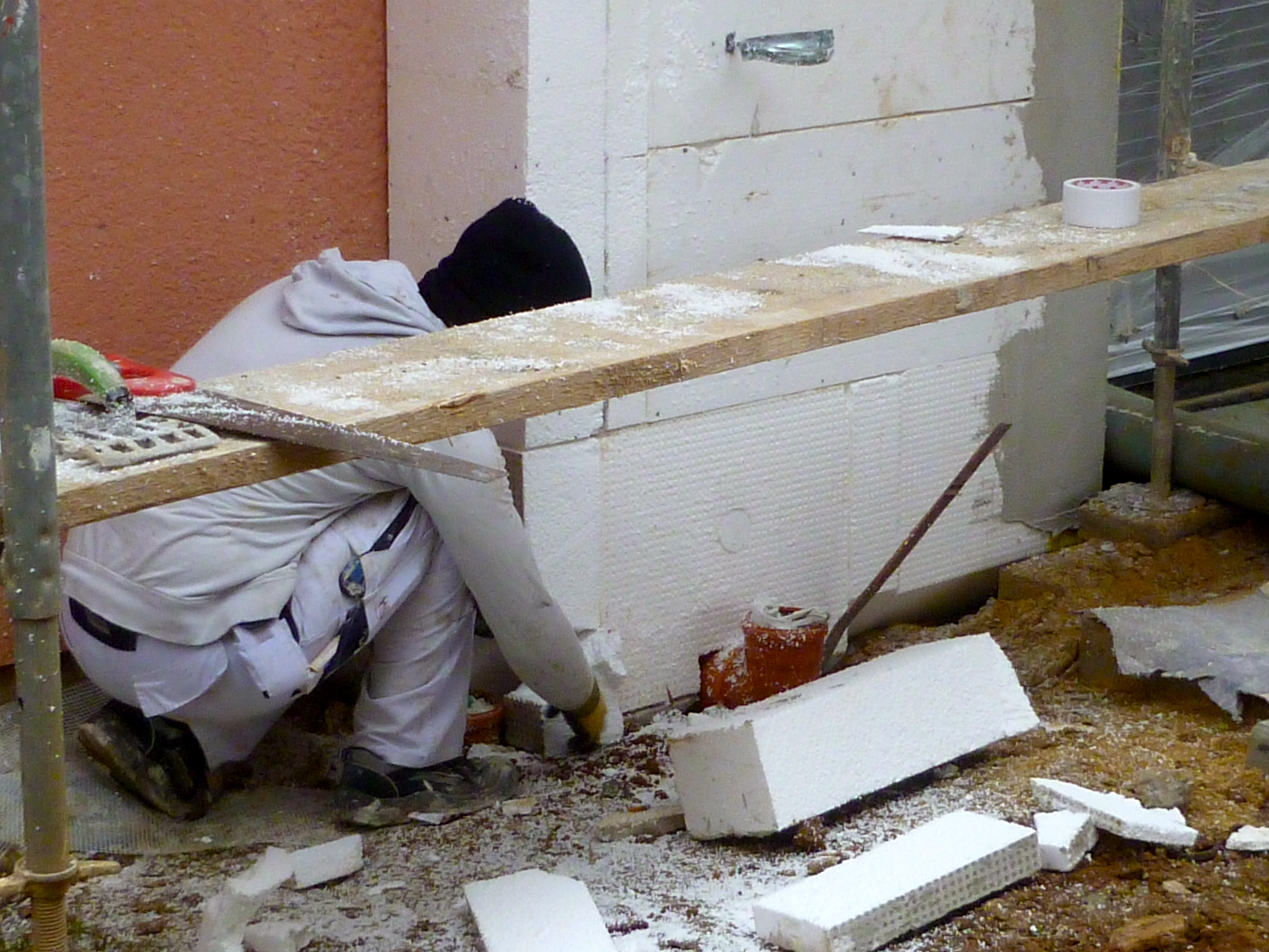 EIFS Insulation System in Germany 18 cm.